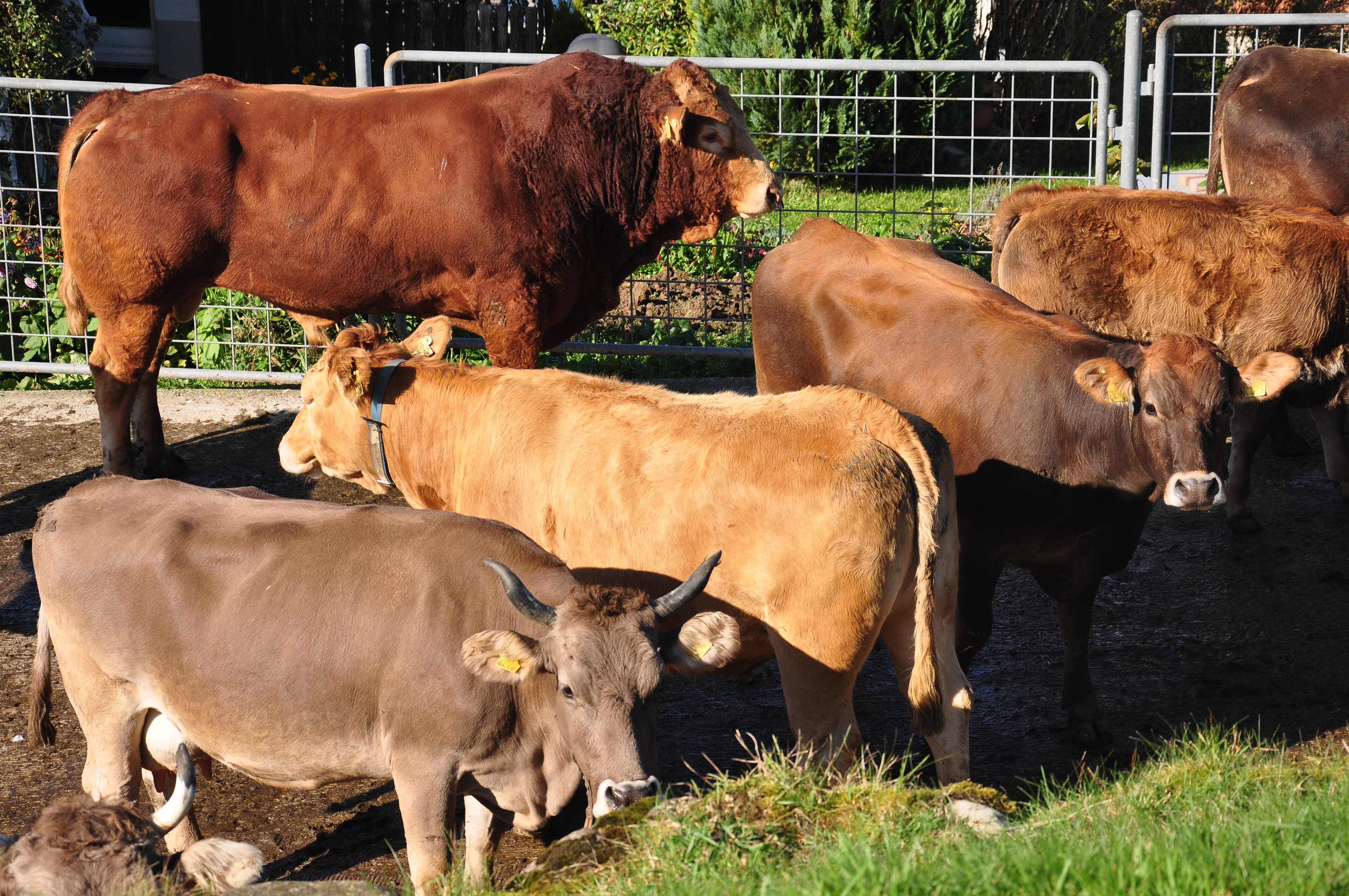 Schindellegi respectively Feusisberg towards Etzel mountain (Switzerland)